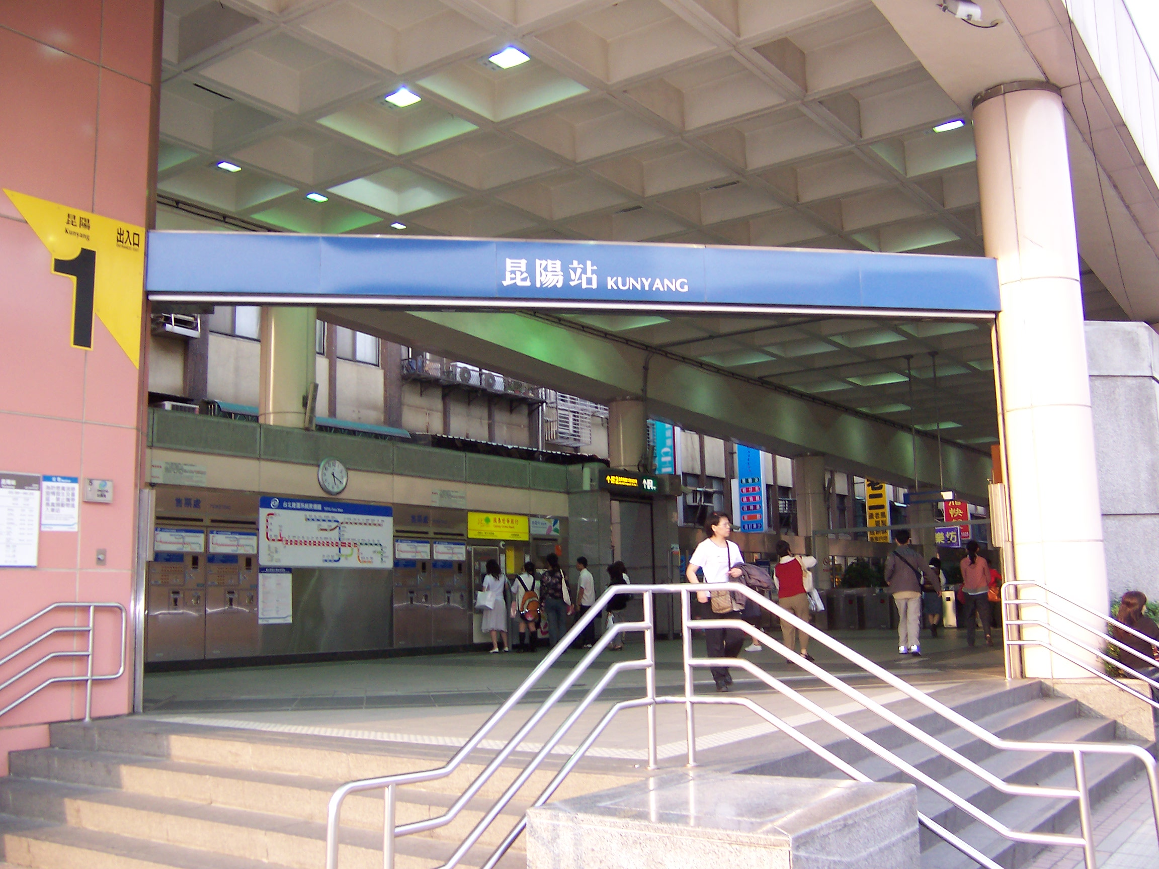 Exit 1, Kunyang Station, Taipei MRT.中文（台灣）: 臺北捷運昆陽站一號出口。